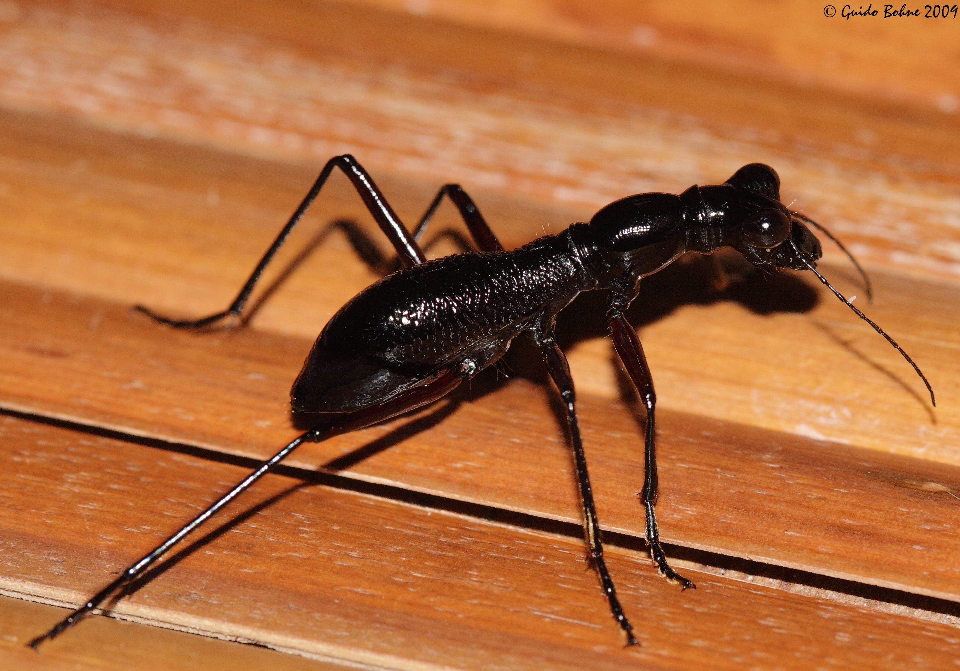 This flightless - usually arboricole - Tiger beetle entered my cabin (on stilts over the sea, 100m away from the coast) voluntarily for hunting.... welcome! Tricondyla (Tricondyla) aptera aptera OLIVIER, 1790 Genus: Tricondyla LATREILLE, 1822 ? [det. J. Wiesner, 2010, based on photos] Family: Cicindelidae (Tiger beetles, Sandlaufkäfer) Suborder: Adephaga Order: Coleoptera (beetles, Käfer) Indonesia, W-Papua, 60km WNW Sorong (Raja Ampat), vic. Pulau Mansuar: Kri Island, 2m asl., 25.09.2009 (IMG_6420)